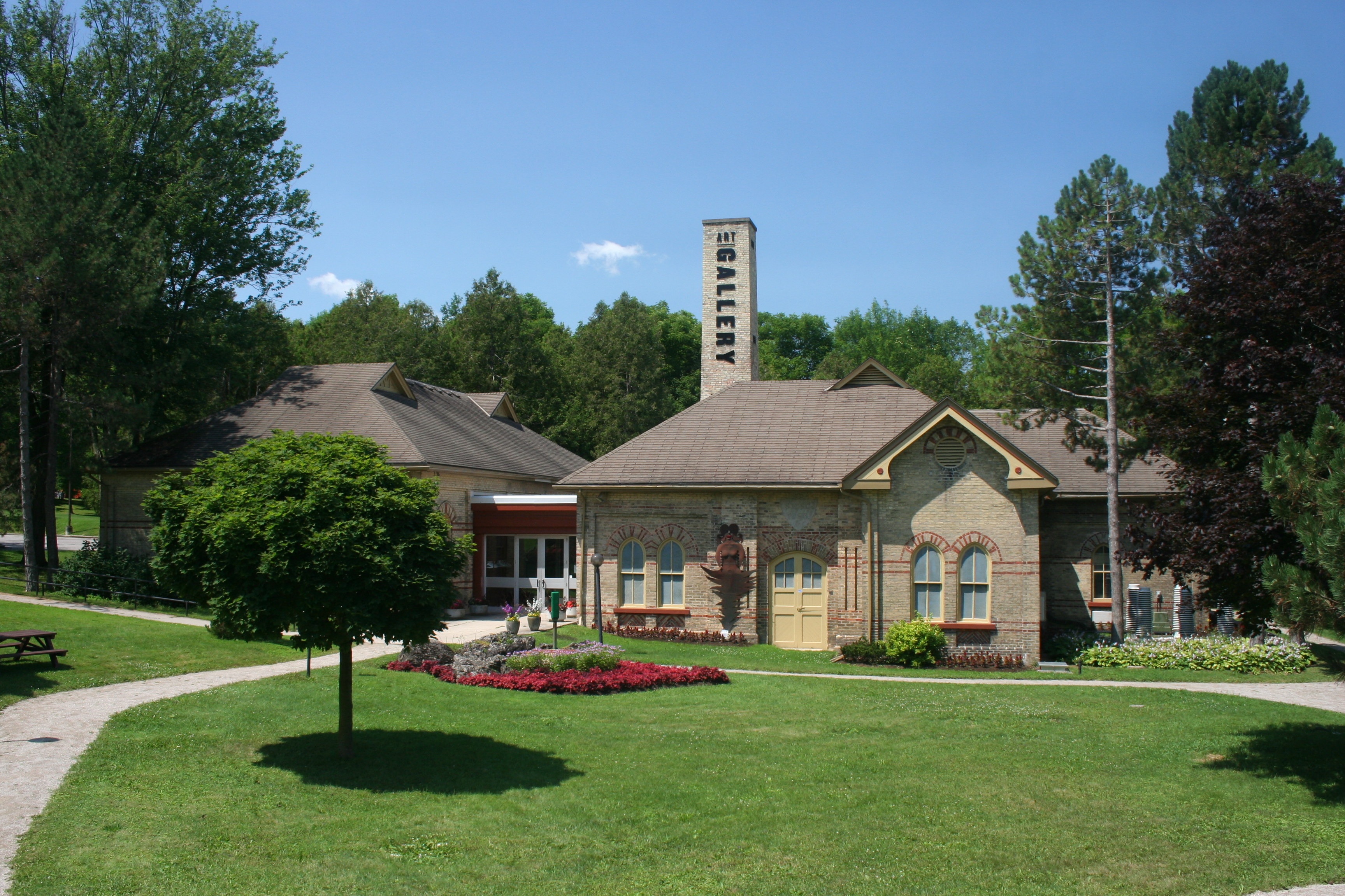 Stratford Art Gallery, Stratford, Ontario_2659